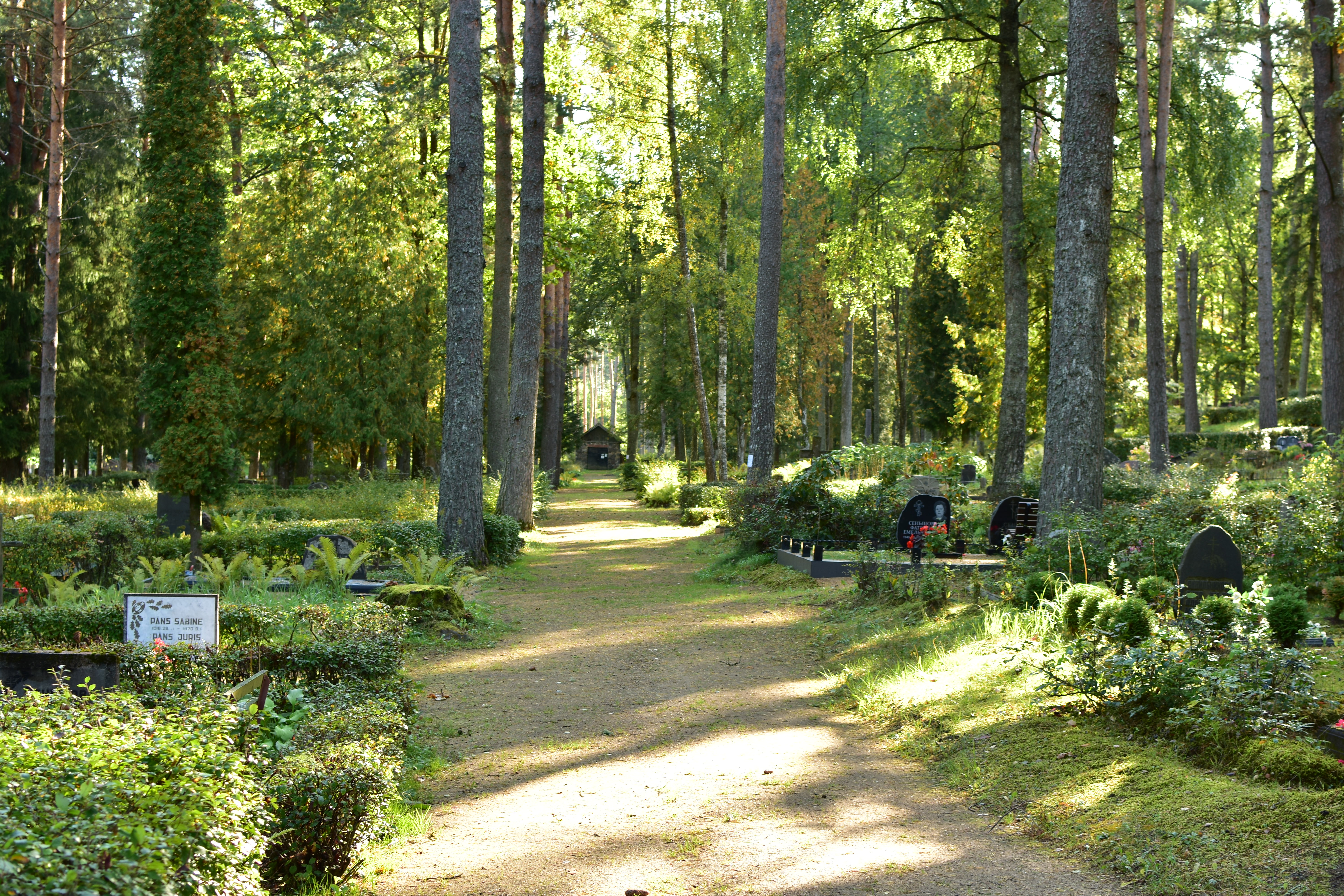 Tombstones in Jaunjelgava cemetery